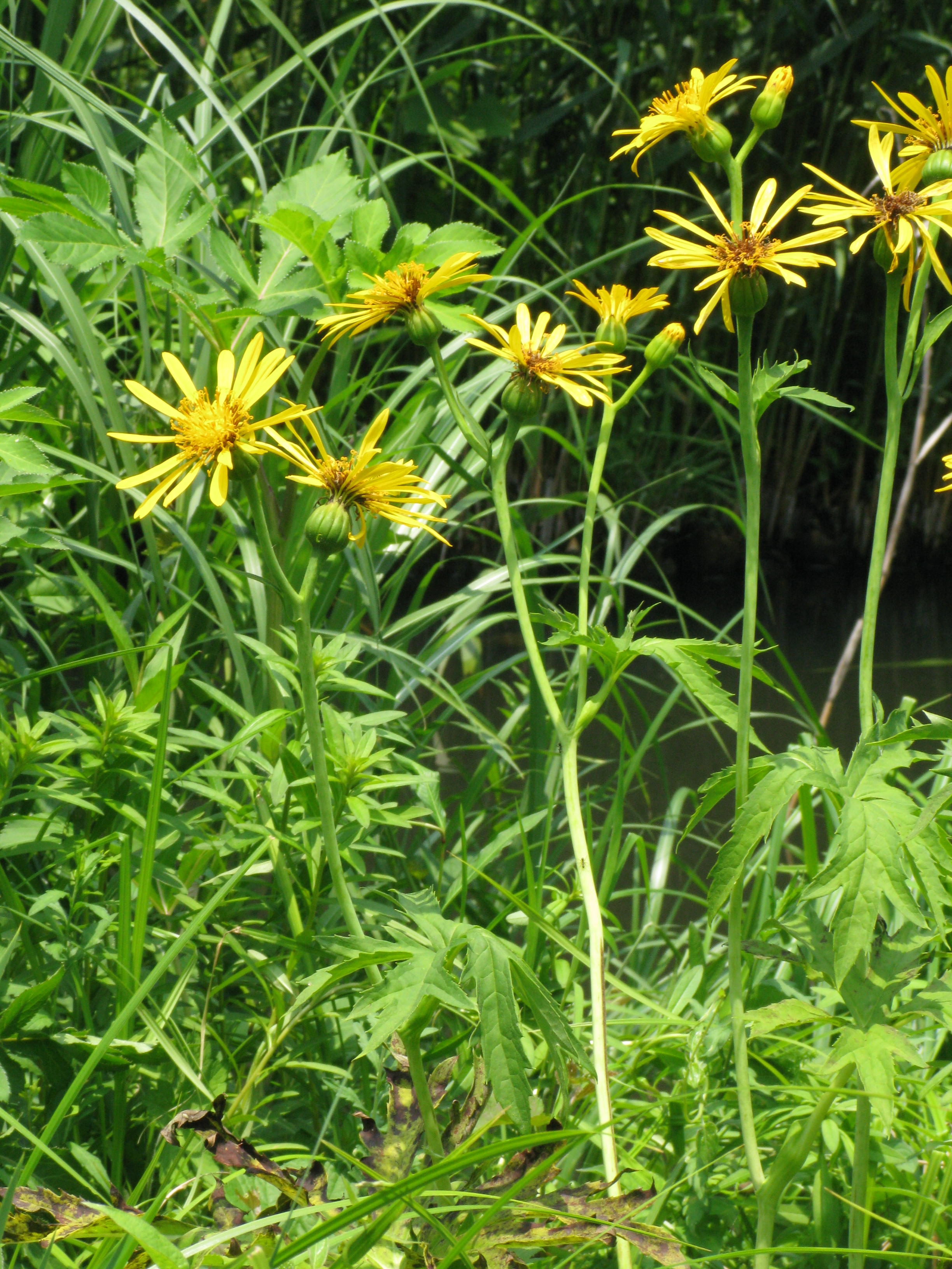 Ligularia japonica, Institute of Nature Study, Tokyo, Japan